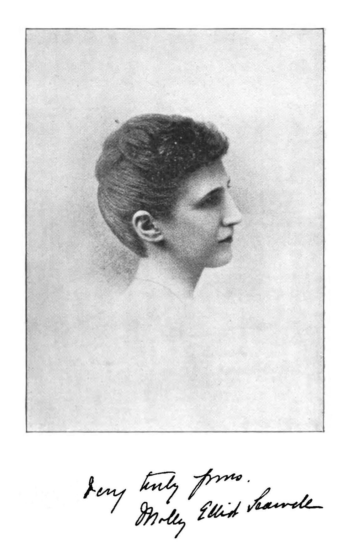 Molly Elliot Seawell 1860-1916